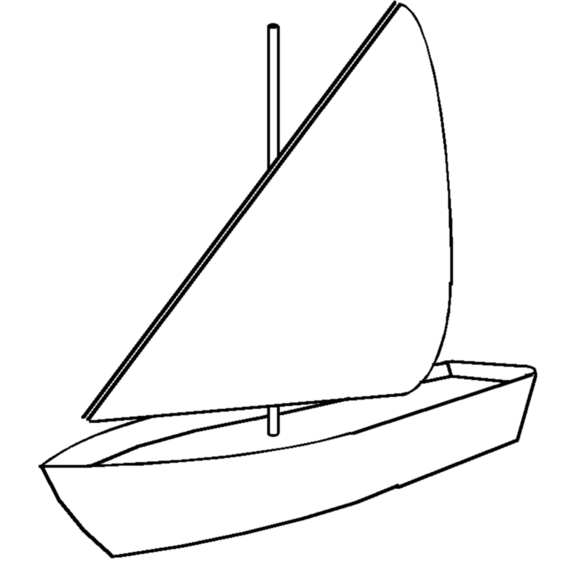 Latin Sails. the figure is drawn by Yosemite.